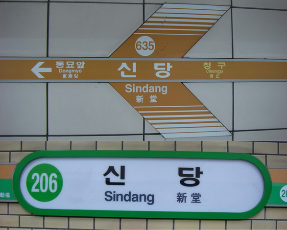 Shindang Station